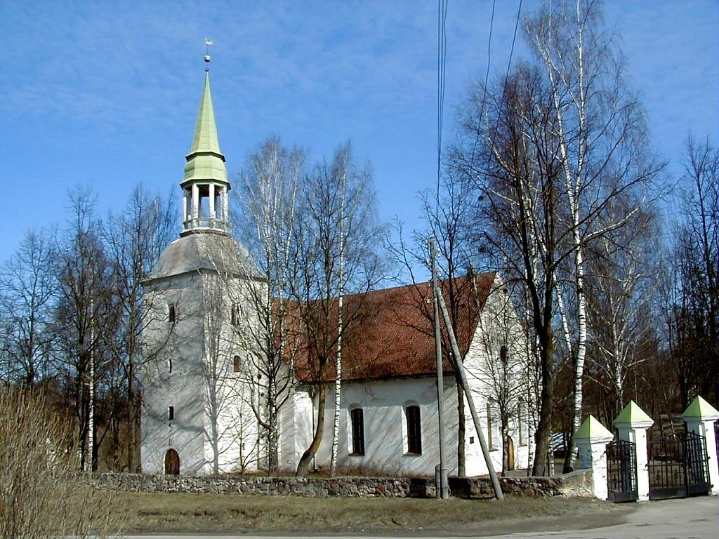 Rauna Evangelical Lutheran Church